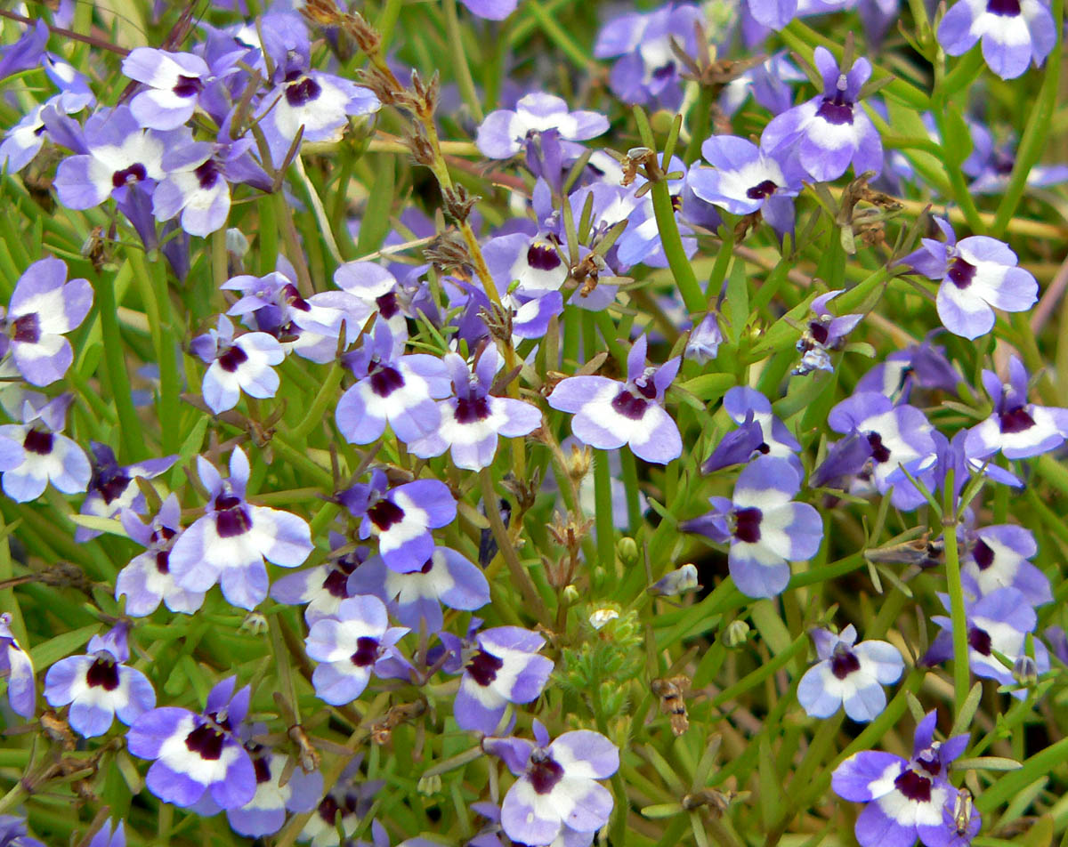 Photo of Downingia concolor at the University of California Botanical Garden